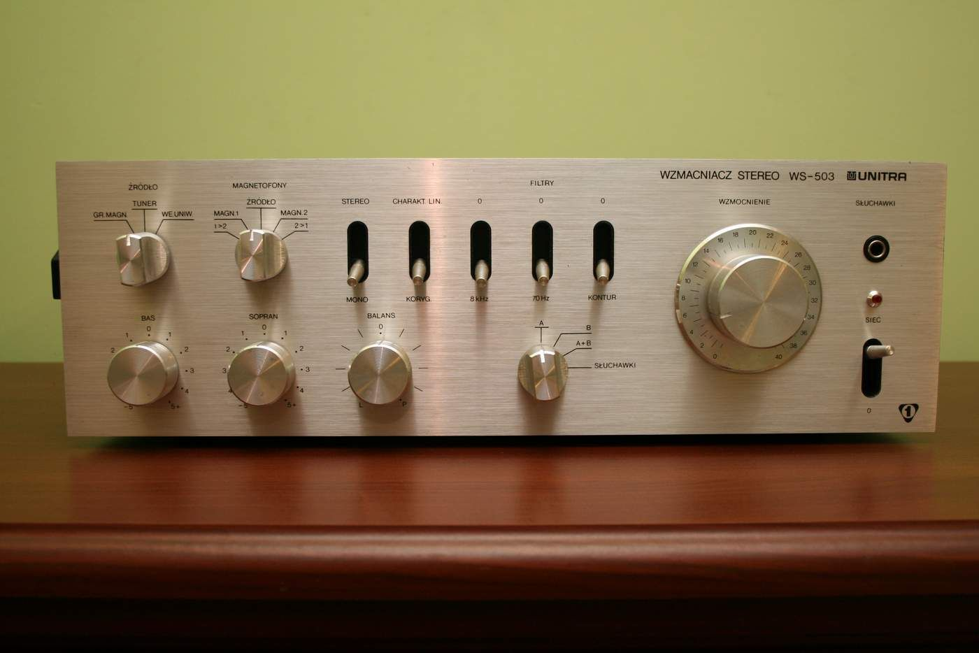 Audio stereo power amplifier made by Unitra